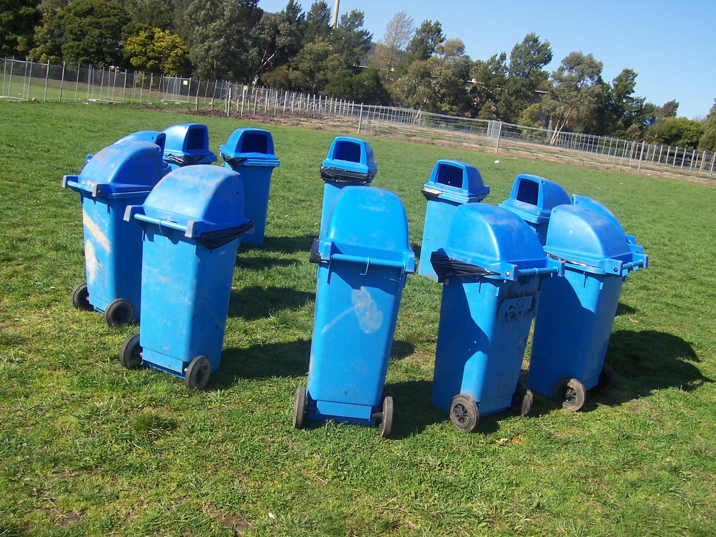 12 blue rubbish bins arranged in a circle.